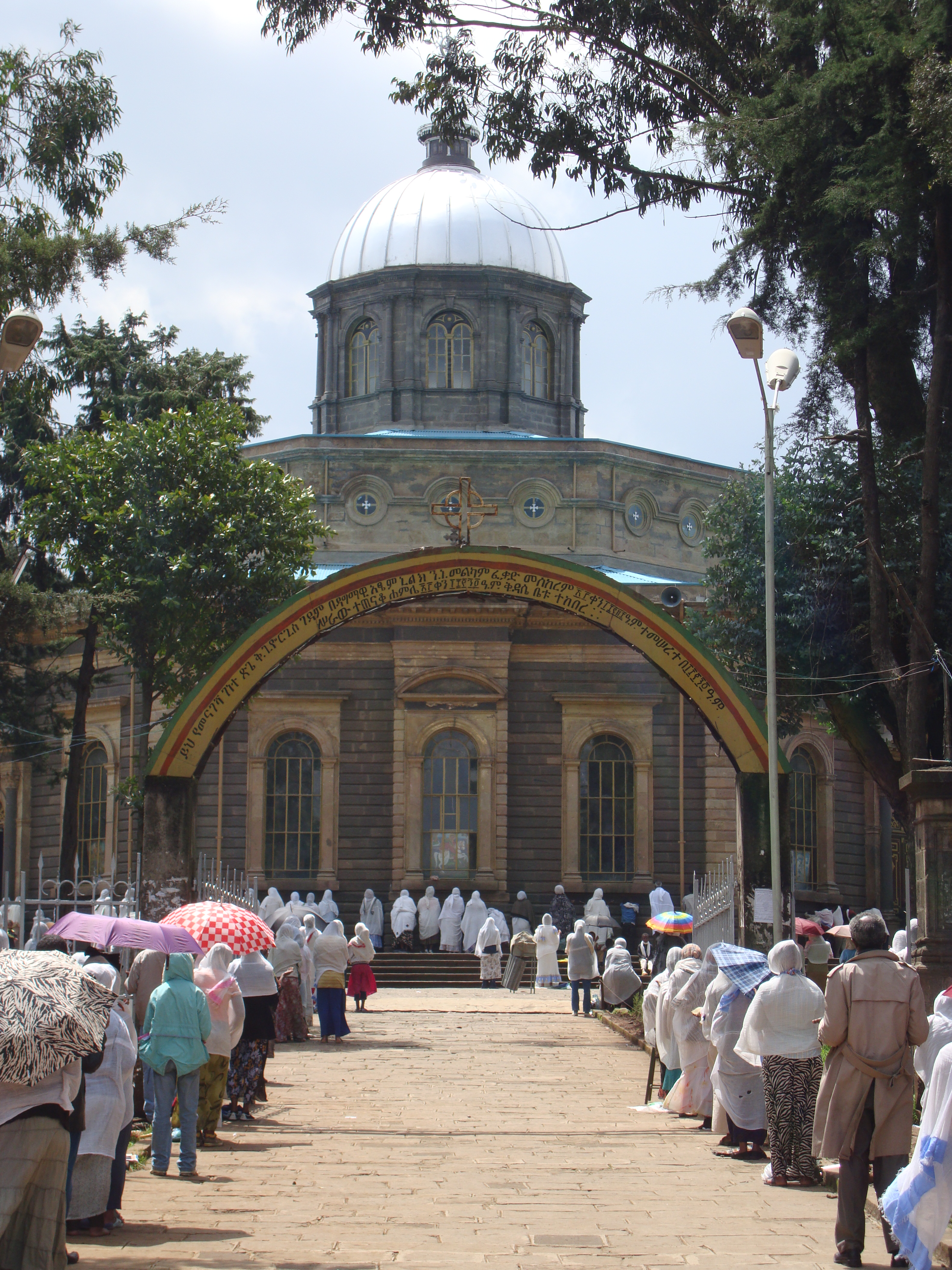 St Georges church in Addis Abeba